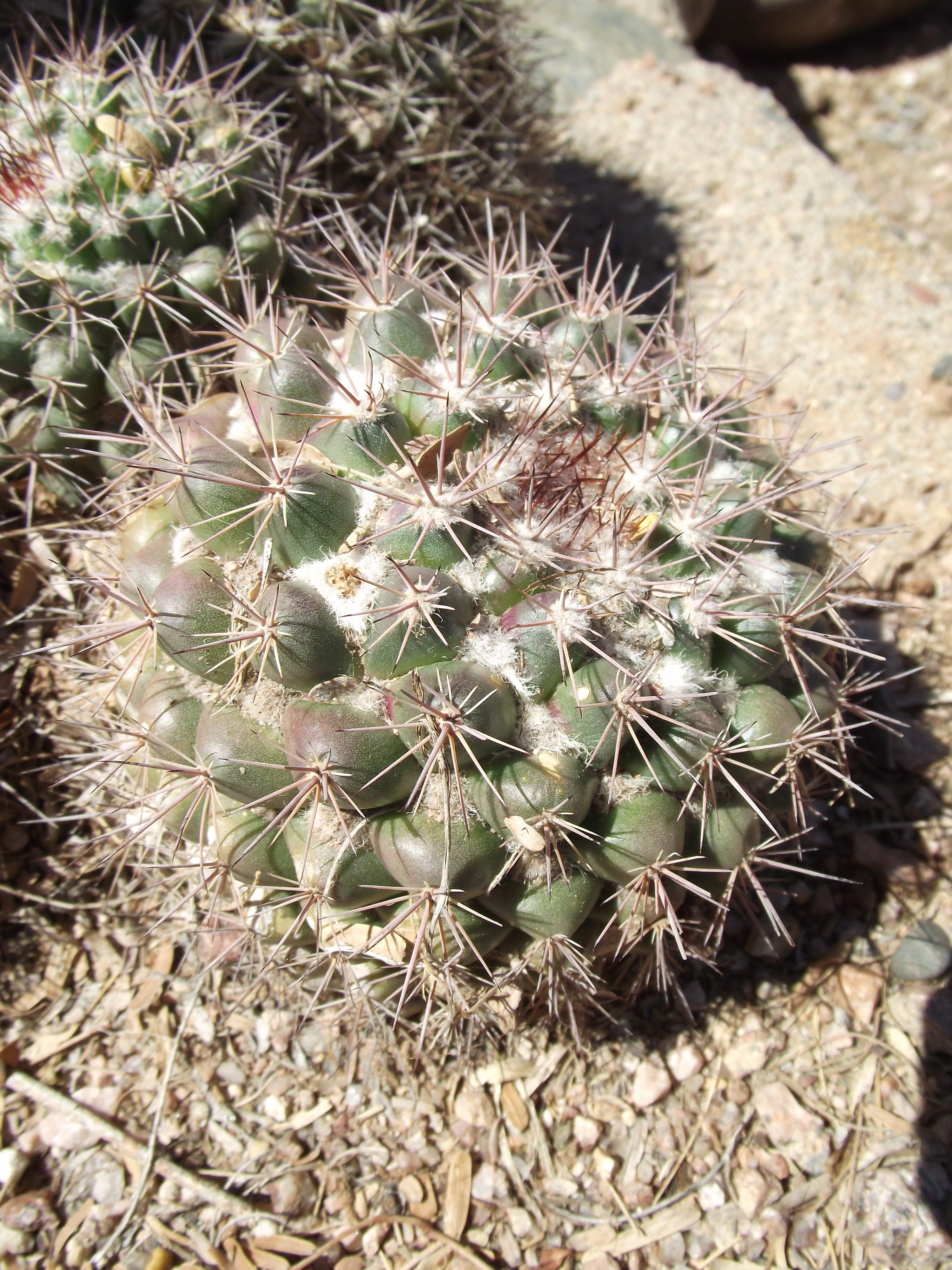 Mammillaria sonorensis at Desert Botanical Garden, Phoenix, Arizona, USA. Identified by sign.